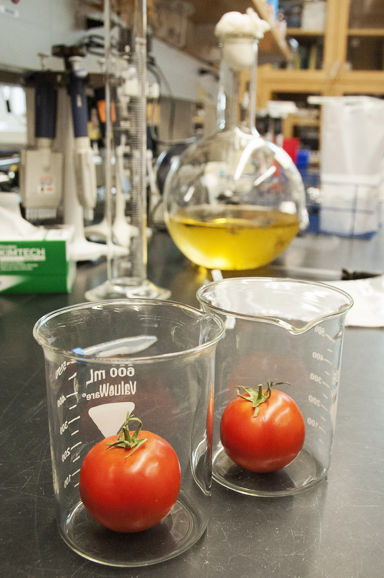 As part of FDA's mission to prevent future foodborne outbreaks, extensive work is done on tomatoes to understand how bacteria, specifically Salmonella,are able to colonize and survive and to improve detection methods. Hundreds of FDA scientists are working to develop the tools needed to keep bacterial and chemical contaminants out of the food supply, and to rapidly identify the disease-causing bacteria that do infiltrate foods and cause outbreaks of foodborne illnesses. Among them are the researchers at FDA's Center for Food Safety and Applied Nutrition (CFSAN), in College Park, Md. To learn about Team Tomato read this Consumer Update "FDA's Team Tomato Fights Contamination." To learn more about how FDA is using genetic research to help ensure food safety read this Consumer Update: Whole Genome Sequencing Helps FDA Identify Dangerous Bacteria. This photo is free of all copyright restrictions and available for use and redistribution without permission. Credit to the U.S. Food and Drug Administration is appreciated but not required. Privacy and use information: FDA photo by Michael J. Ermarth